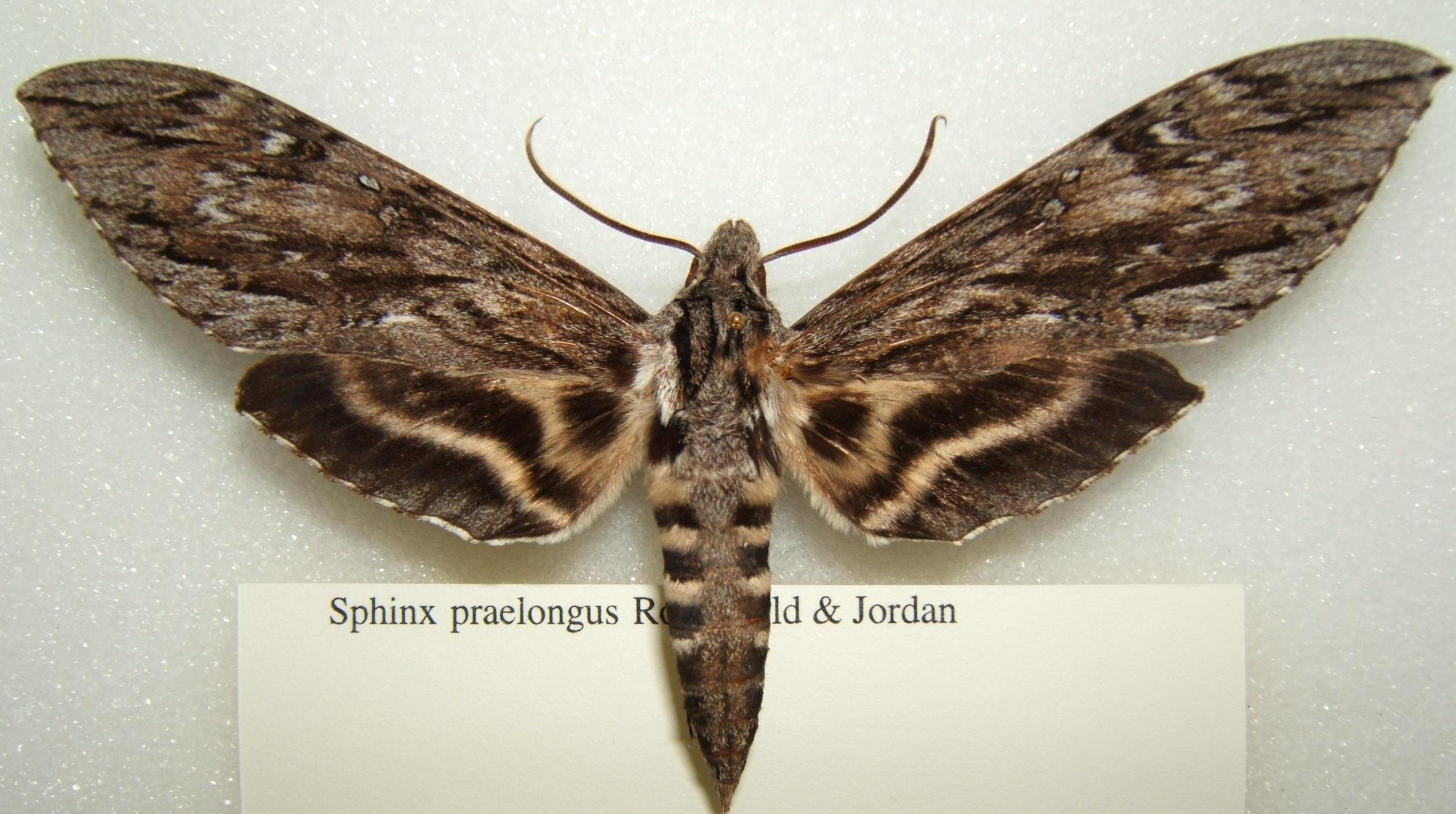 Sphinx praelongus adult taken by Shawn Hanrahan at the Texas A&M University Insect Collection in College Station, Texas.